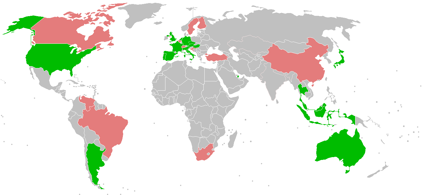 Countries marked in green are those which host the last grand prix. Those in red have hosted a MotoGP in the past.